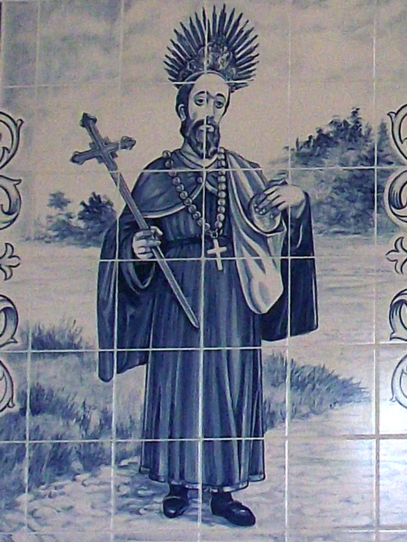 Saint Felix azulejo